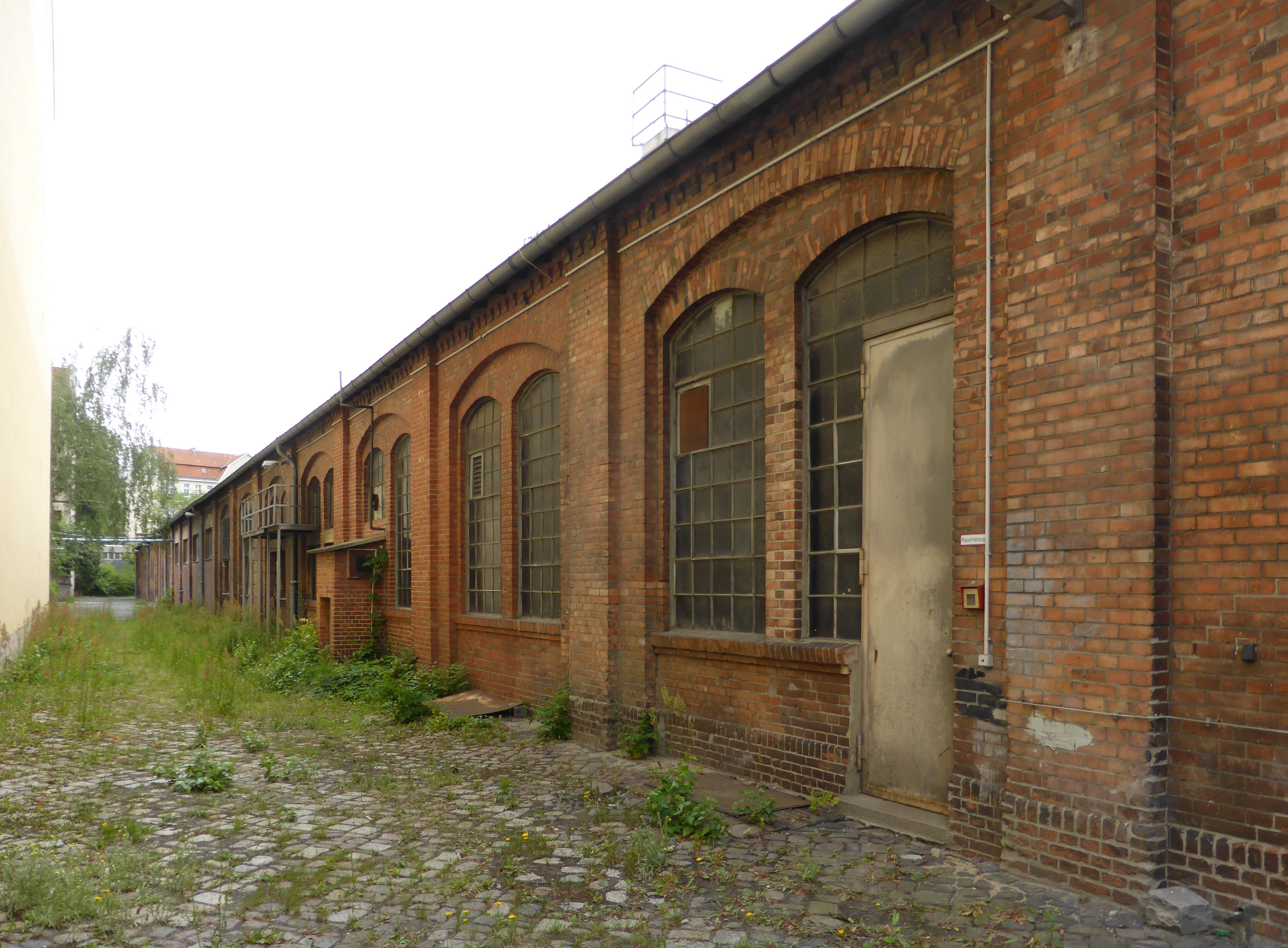 Former tram depot in Berlin-Schöneberg